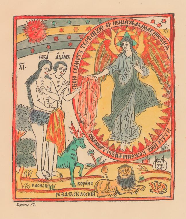 Adam and Eve. Illustration from the first Russian engraved Bible.